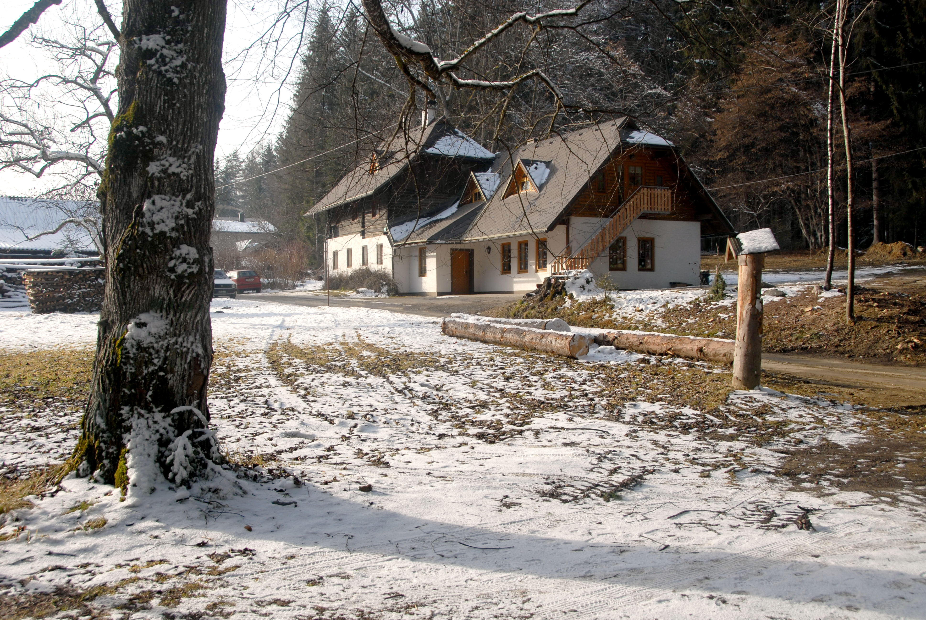 Farmhouses on Hohenwartweg #50 in Köstenberg, market town Velden am Wörther See, district Villach Land, Carinthia, Austria, EU